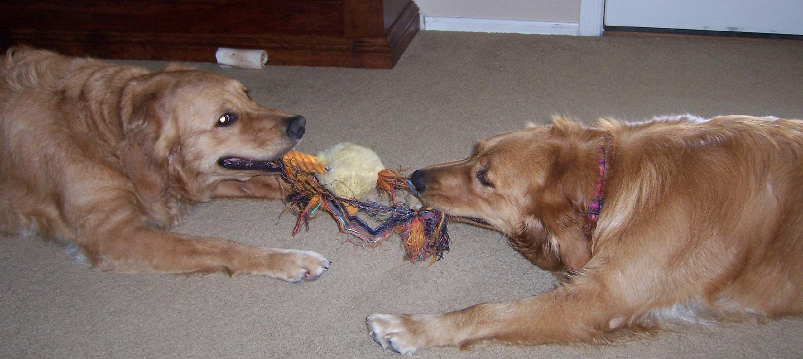 Two Golden Retriever dogs playing with a dog toy shaped like a duck's head. The dogs' names are "Elly" and "Sophie".